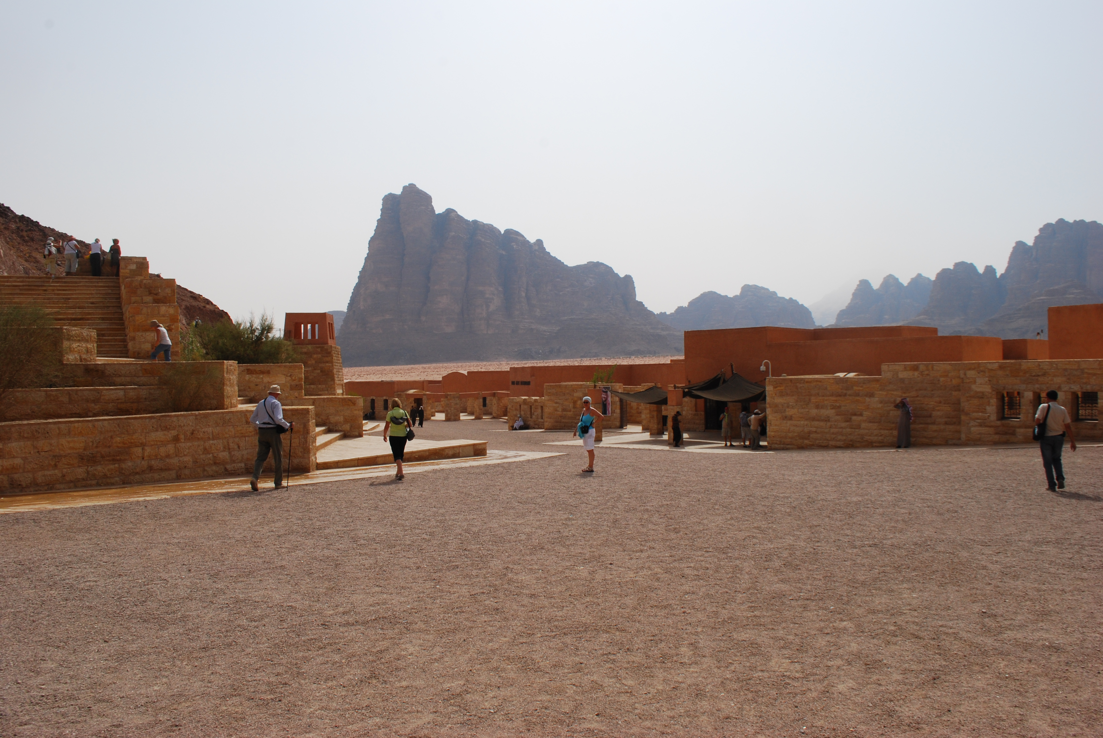 Wadi Rum Tourist Centre